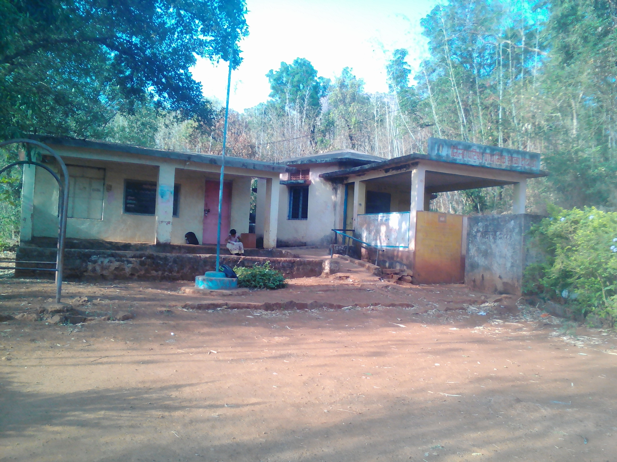 जिल्हा परिषद प्राथमिक शाळा दादवडी